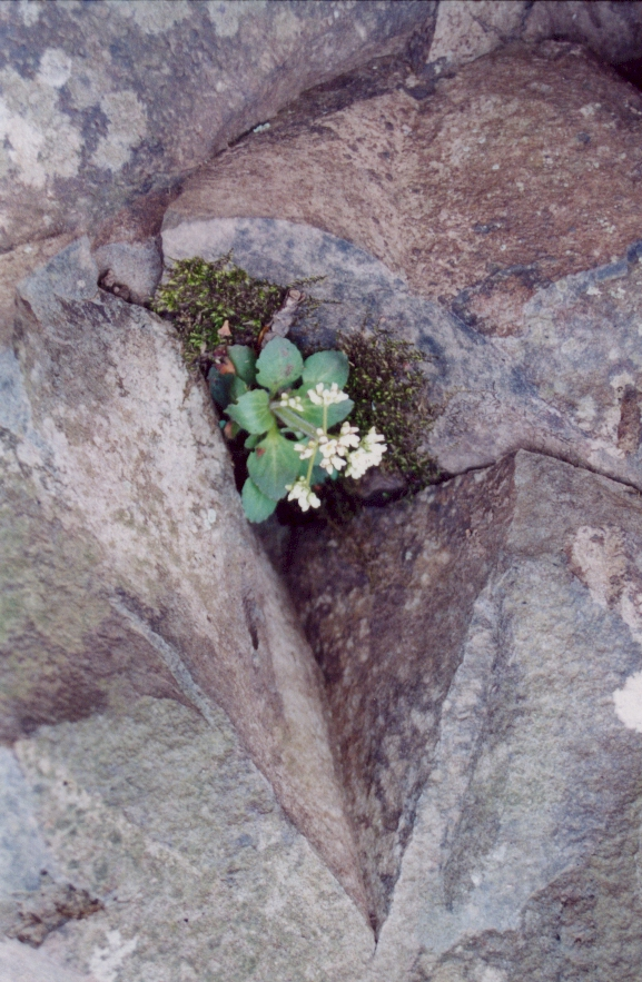 Penwood State Park. Connecticut. Traprock outcrop/ Saxifrage. Paul Gagnon